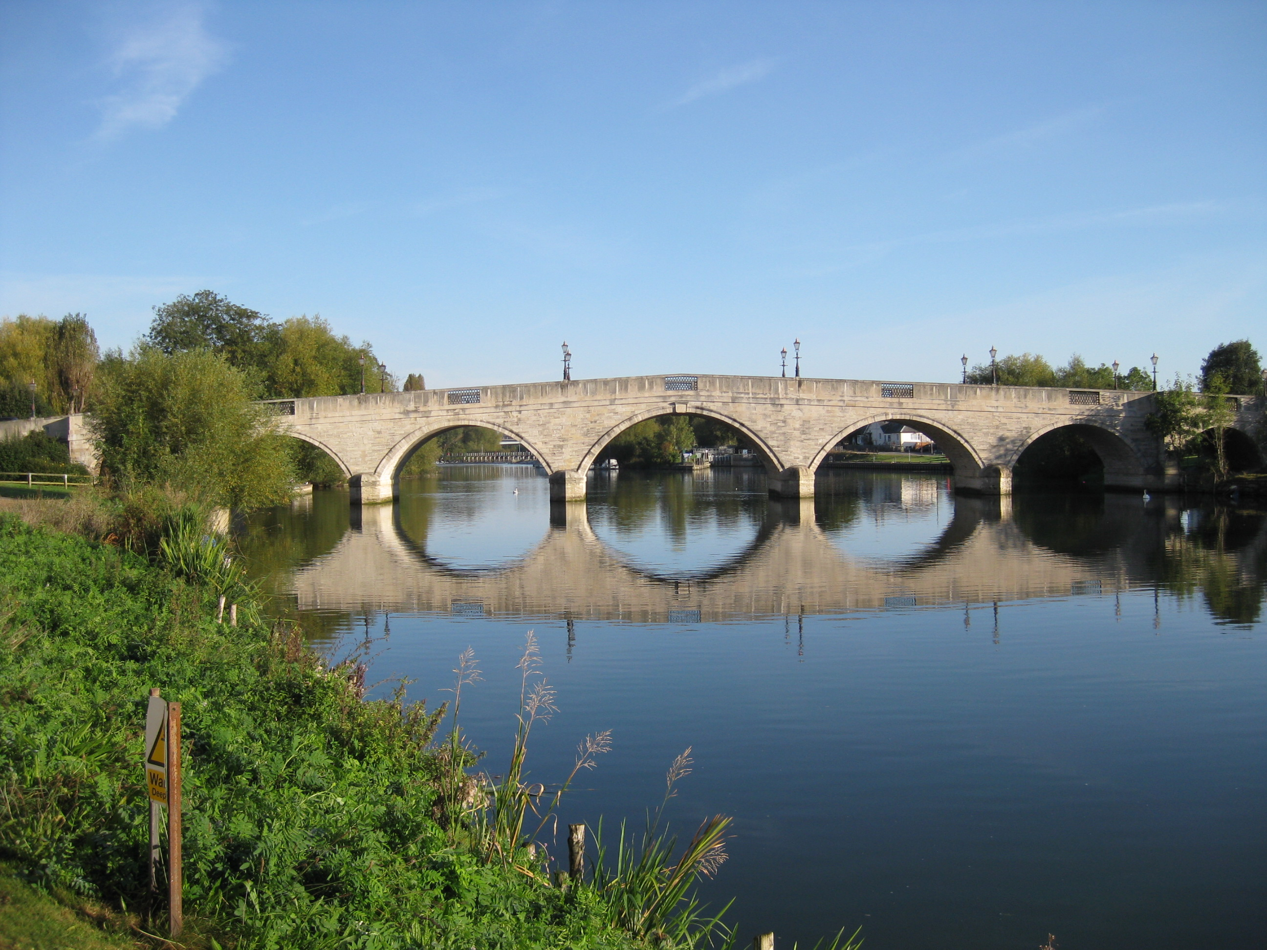 Chertsey Bridge between Chertsey and Laleham across the River Thames